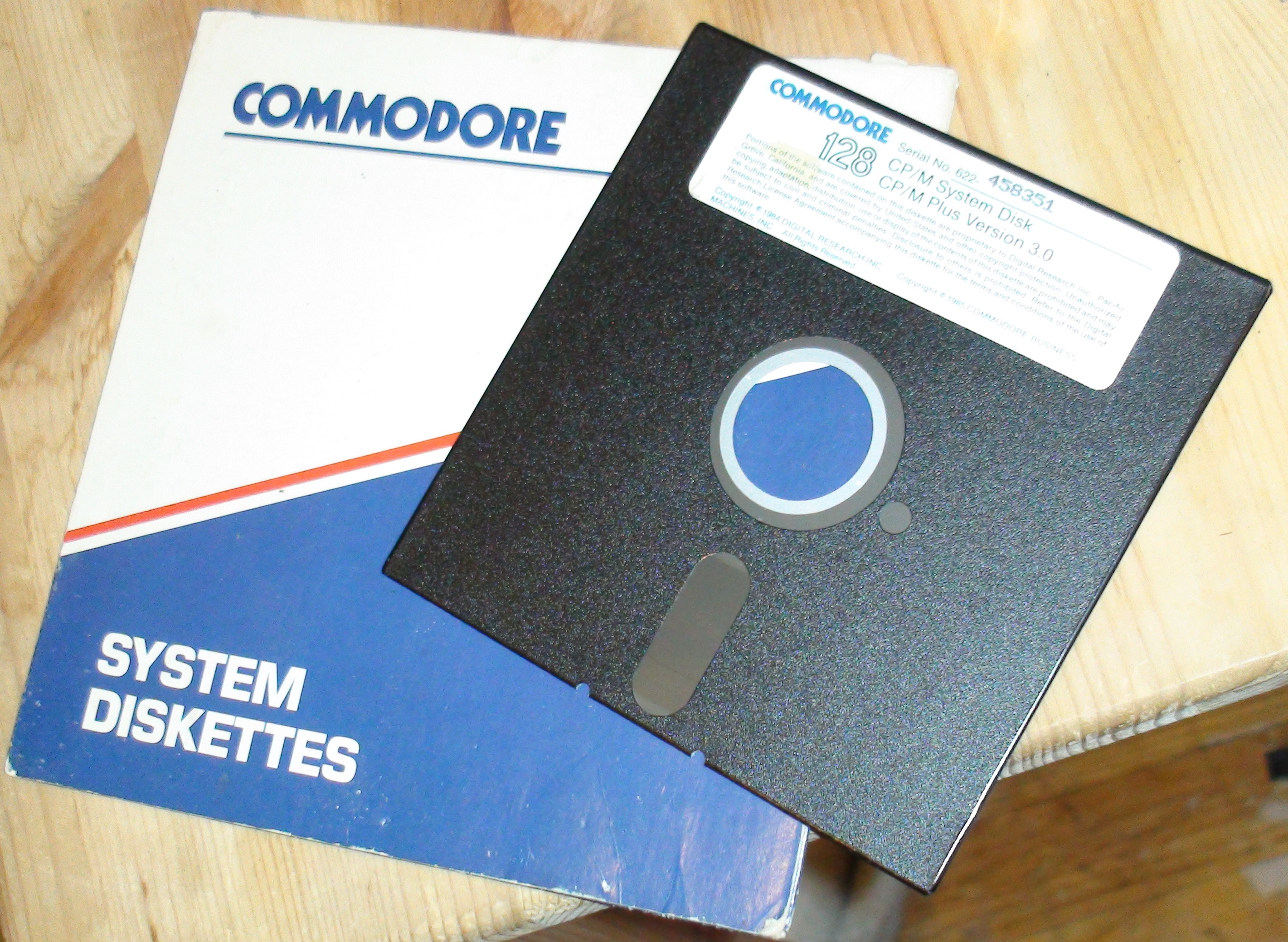 Photo of Commodore 128 CP/M boot diskettes.